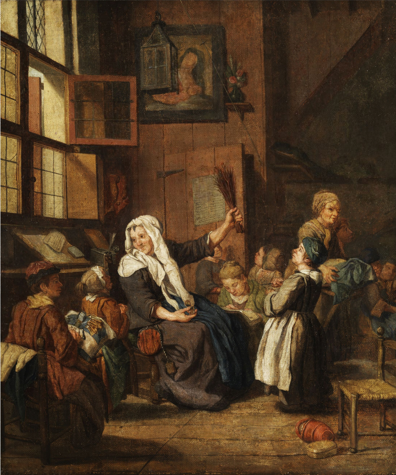 Girls' school, oil on canvas, 40 x 35 cm